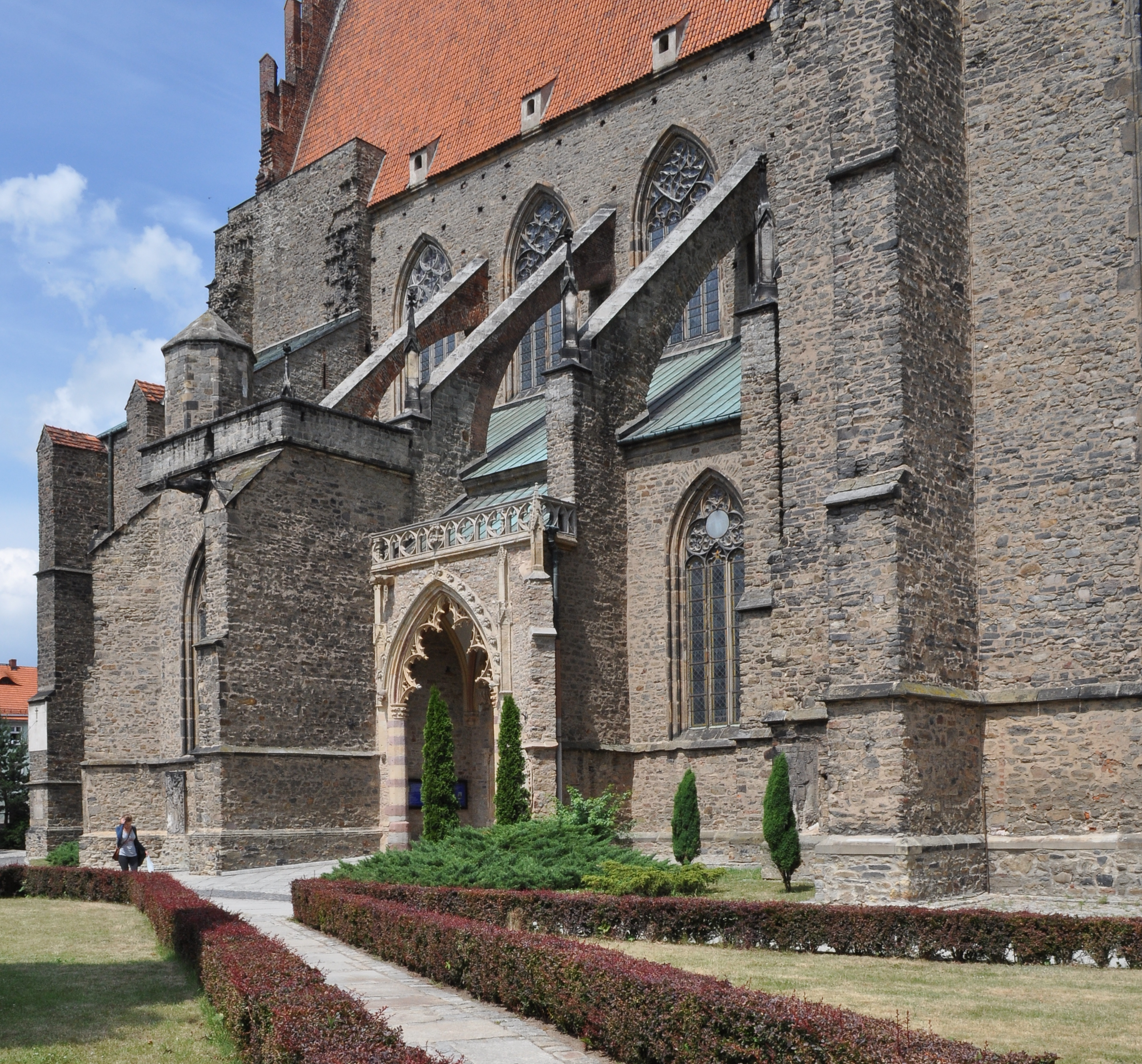 Basilica of Saint Apostles Peter and Paul in Strzegom